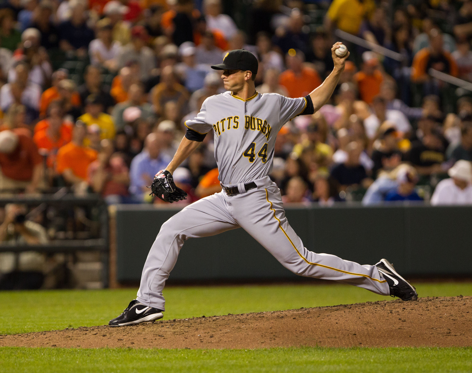 Tony Watson June 13, 2012